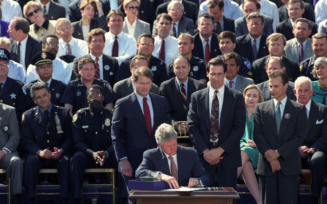 Photo of Clinton